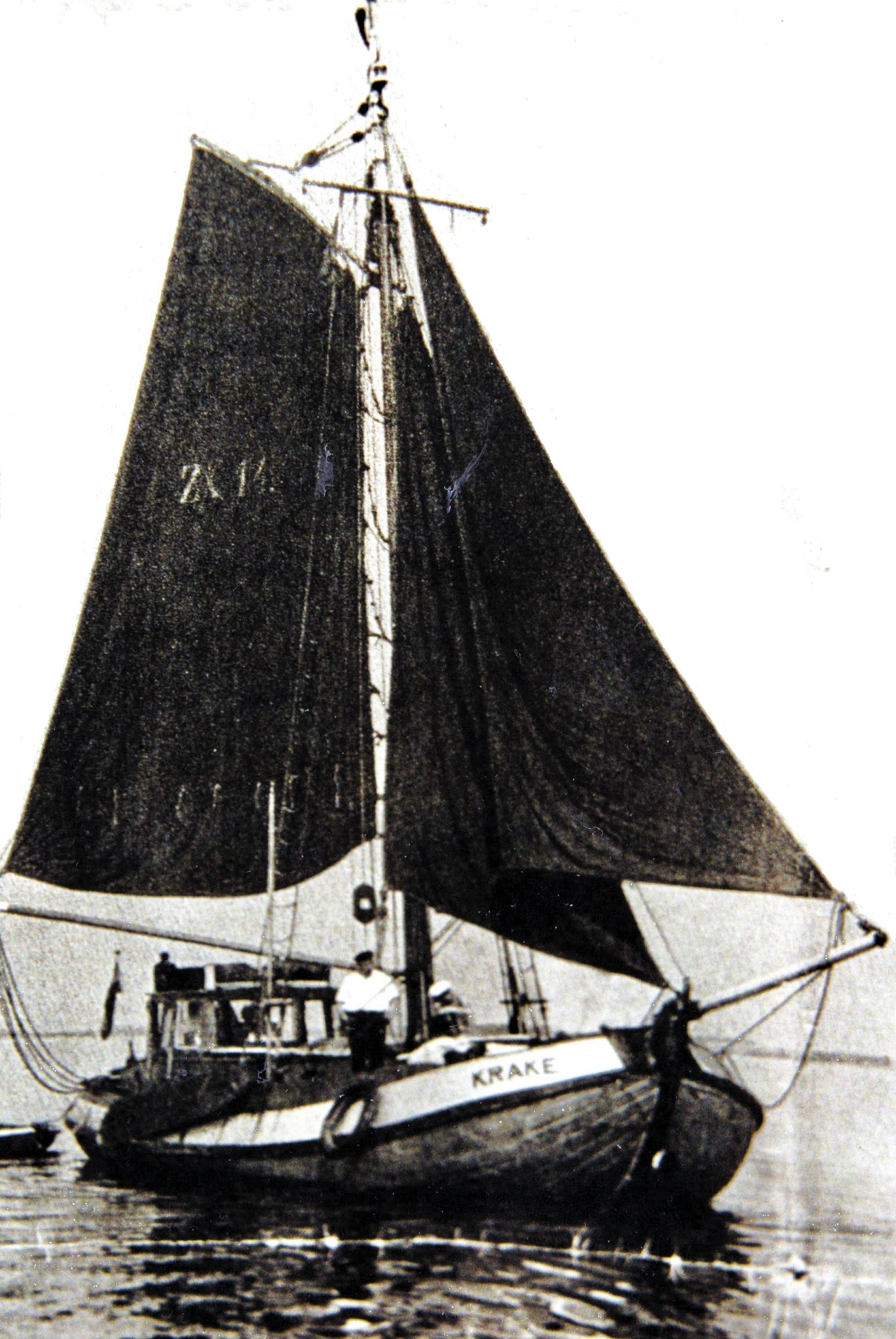 Historic auxiliary powered vessel Krake (= octopus) with identification number ZK 14 (= Zoutkamp harbour, The Netherlands) and DGIC as its call signal. This sailing ship (Dutch barge, type Blazer) originally made of oak wood is a special construction for cargo and fishery in the shallow waters of the Wadden Sea. Its flat bottom enables the ship during tidal flats to rest on the sea ground. The picture from a contemporary newspaper was made between 1934 and 1938. During this time the Krake was owned by the German author and progressive pedagogue Martin Luserke (1880–1968) who deployed the ship as his floating poet's workshop. In many harbours of The Netherlands, Germany, Denmark, South Norway and South Sweden mostly younger people visited the ship for his readings or taletelling and some even went with him and his son Dieter Luserke (1918–2005) on cruise. One of the later prominent passengers was Beate Uhse (1919–2001) who attended Schule am Meer on the German island Juist which Martin Luserke had founded in 1925.